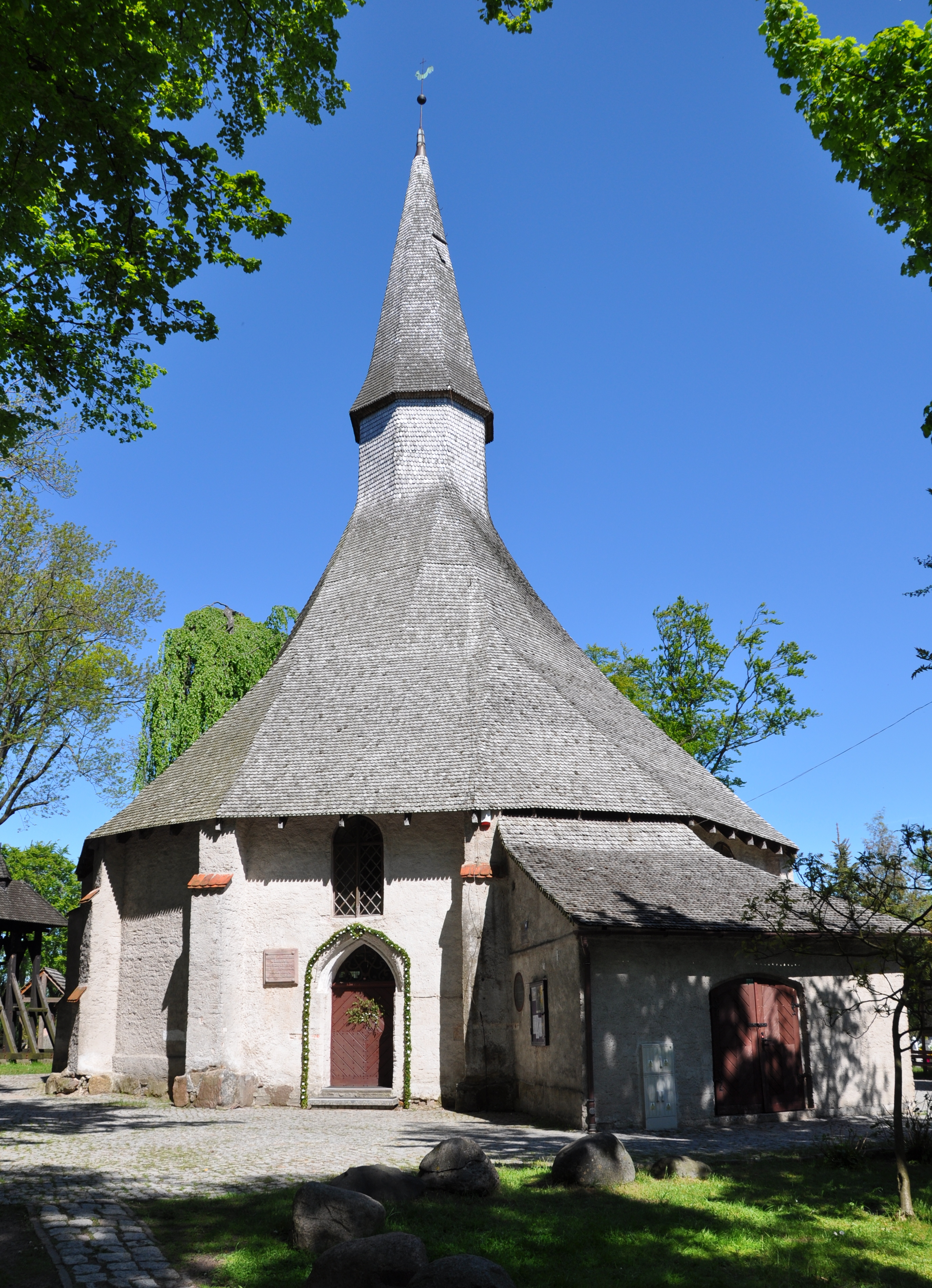 St. Gertrude Roman Catholic Church in Darłowo, Poland